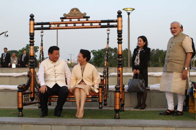 Chinese President and First Lady visit Sabarmati Riverfront, accompanied by the PM